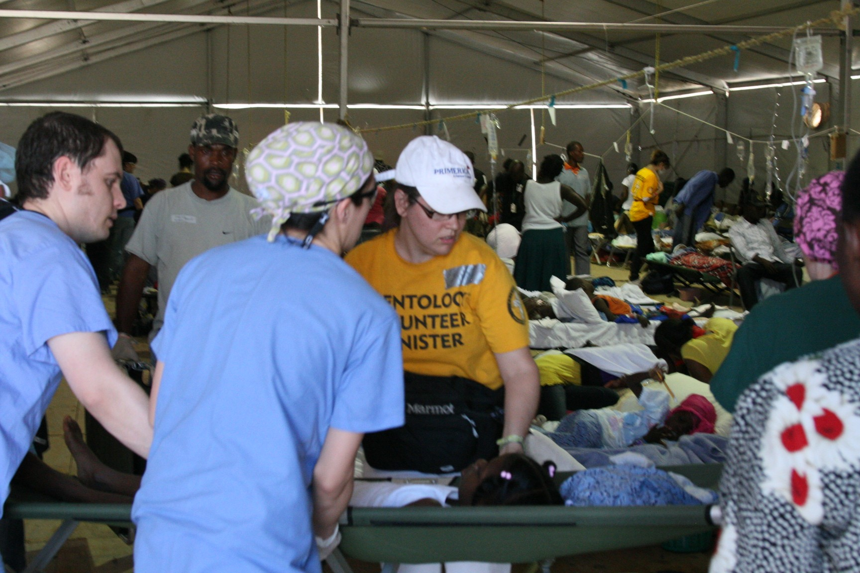 Scientology Volunteer Ministers in Haiti, February 2010